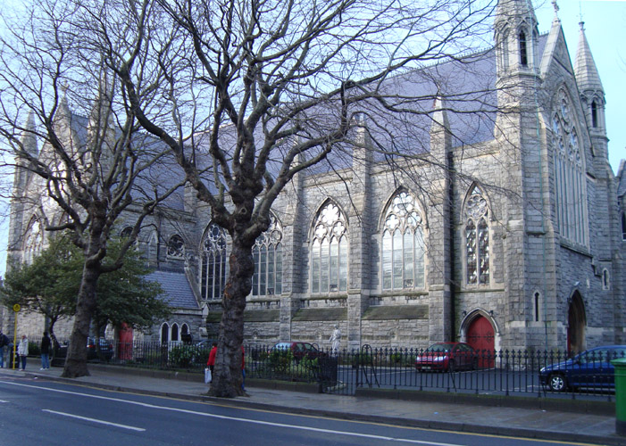 Photograph of Harrington Street (St. Kevin's) church, Harrington Street, Dublin, Ireland. Taken by me 20 January 2009.